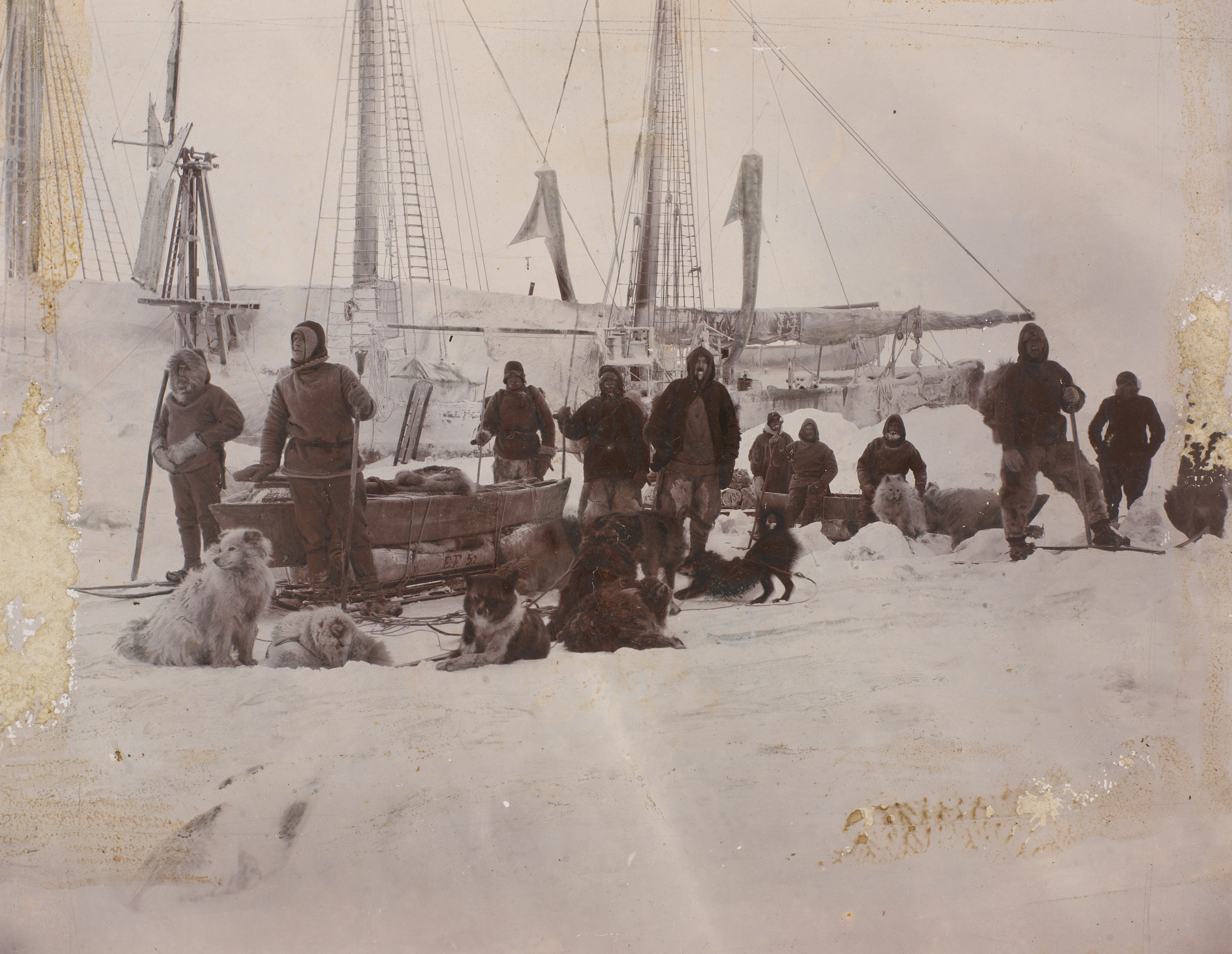 Bidding farewell to the «Fram» and the crew, as Fridtjof Nansen and H. Johansen set out on their expedition toward the North Pole. From the left: Otto Neumann Knoph Sverdrup, Fridtjof Nansen, Peder Leonard Hendriksen, Lars Pettersen, Ivar Otto Irgens Mogstad, Anton Amundsen, Fredrik Hjalmar Johansen, Theodor Claudius Jacobsen, Sigurd Scott Hansen and Adolf Juell. One of the pictures from the expedition with arctic ship toward the North Pole in the period June 24, 1893 to August 13, 1896. According to the plan, the ship was to drift in the ice with the ocean current from the coast of Siberia across the North Pole to Greenland. In March 1895, Fridtjof Nansen, together with a companion, set out on a hazardous expedition with skis and dogsledges, in an attempt to reach the pole itself.